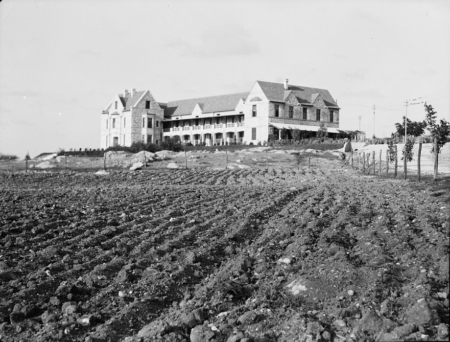 Title: Agriculture, etc. Agricultural school at Tul Karem. Donated by Sir Khadouri for Arab students Abstract/medium: G. Eric and Edith Matson Photograph Collection Physical description: 1 negative